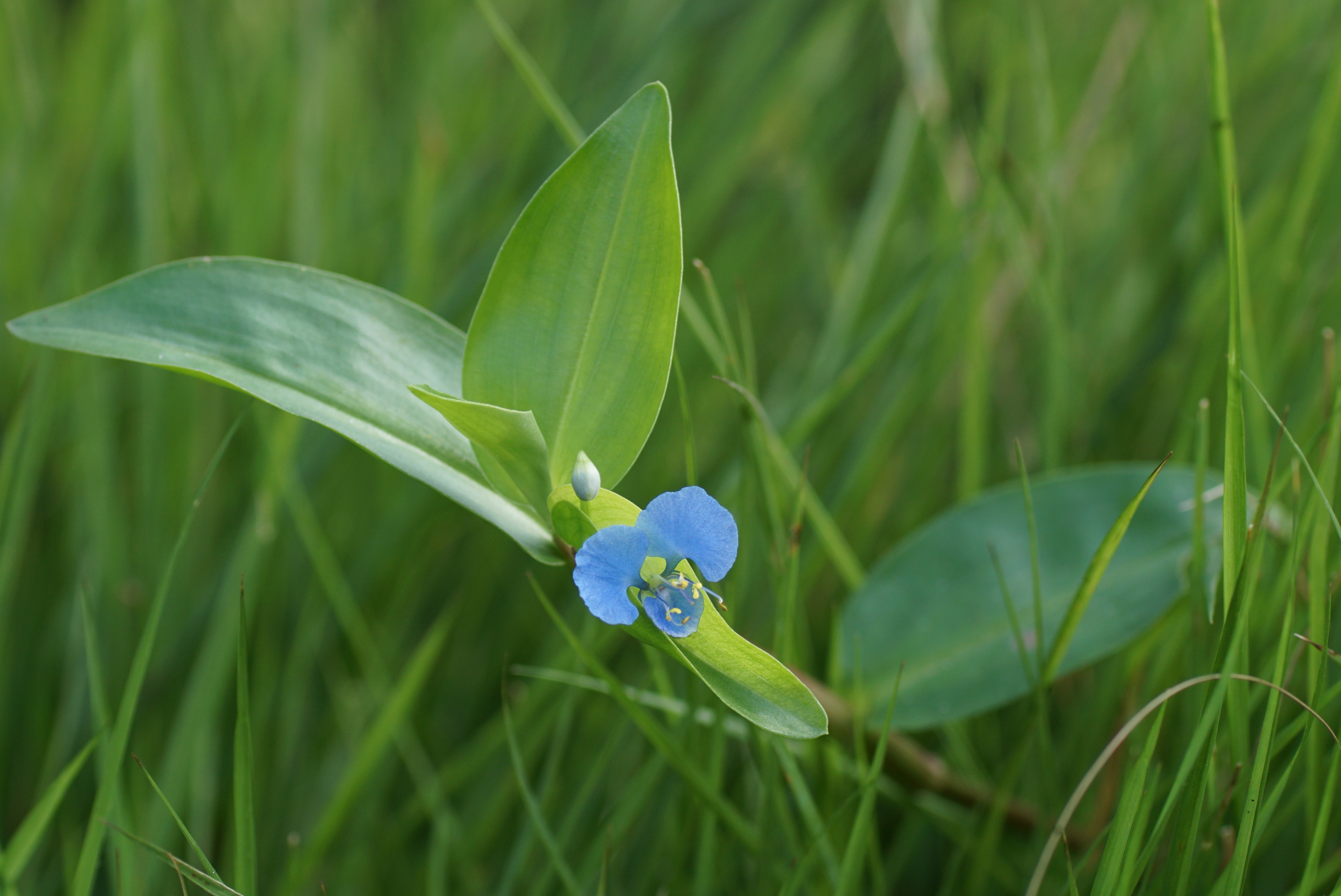 Commelina diffusa